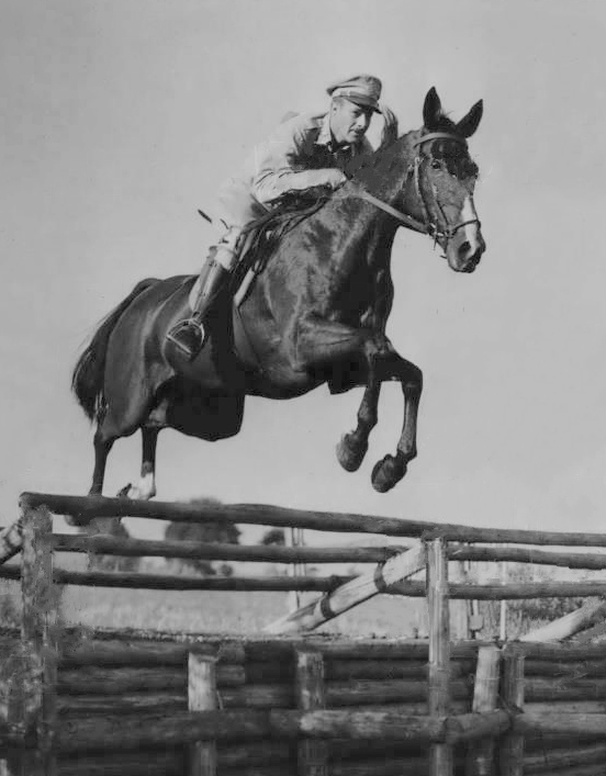 1947 Press Photo Lt Col Frank Henry on Reno Ike at Olympic Equestrian trials